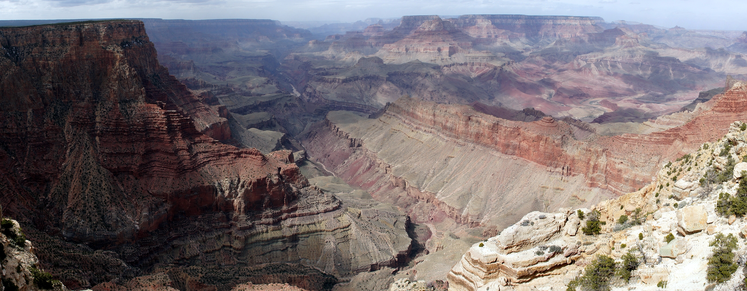 A panoramic view of the Grand Canyon from the South Rim